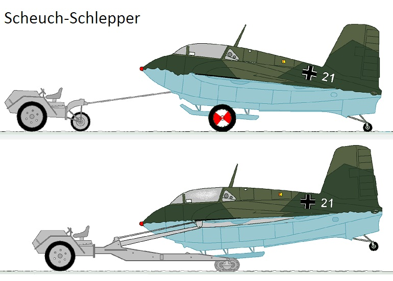 Me163 Scheuch-Schlepper